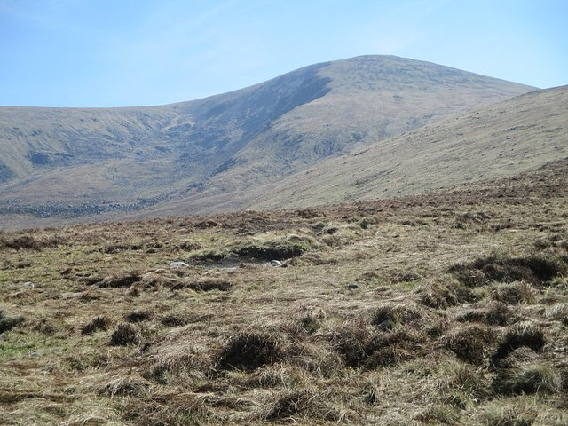 Looking into the north prison of Lugnaquilla from Camara Hill, County Wicklow, Ireland